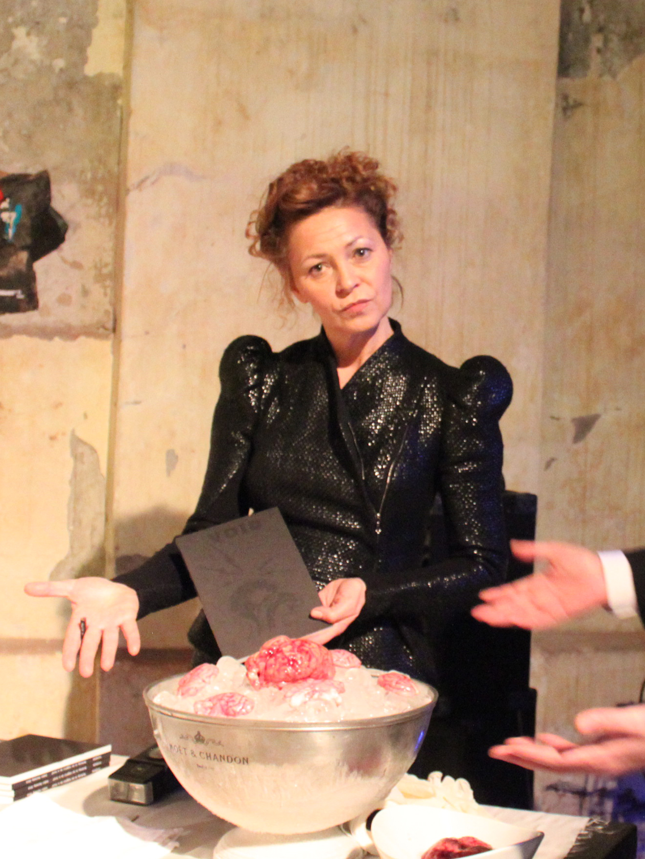 Presentation of the Ludic Society VOID-Book at Auditorium Goldscheyder Vienna 2016